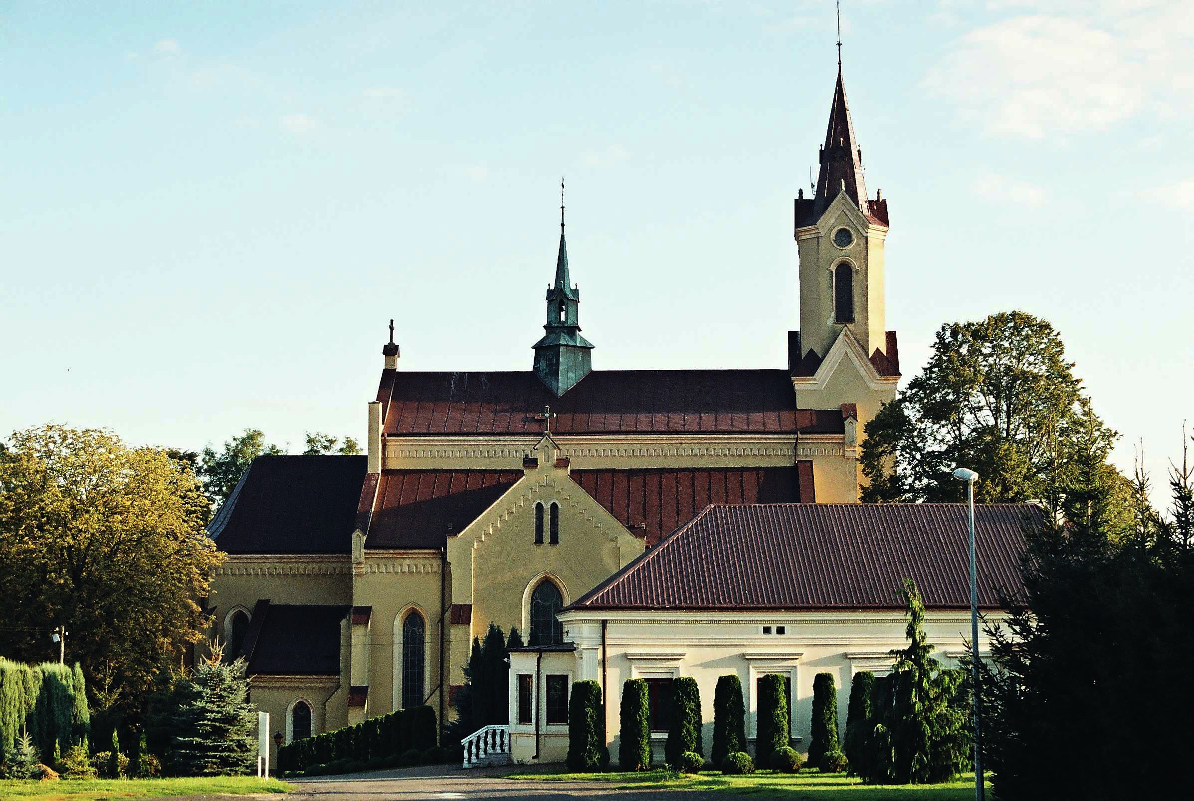 Church of St Dorota in Markowa from early 20th century